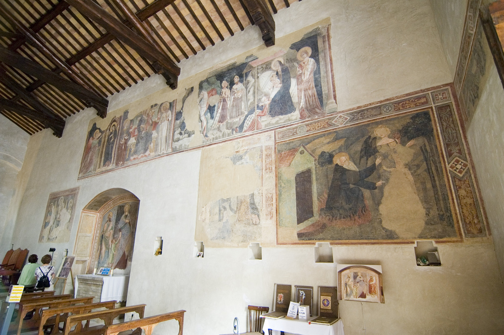 see above